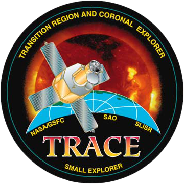 TRACE mission logo/patch.